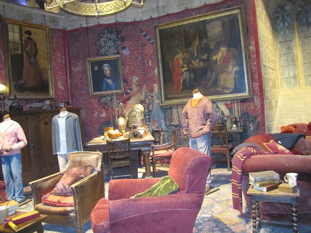 استودیو برادران وارنر (استودیو هری پاتر)